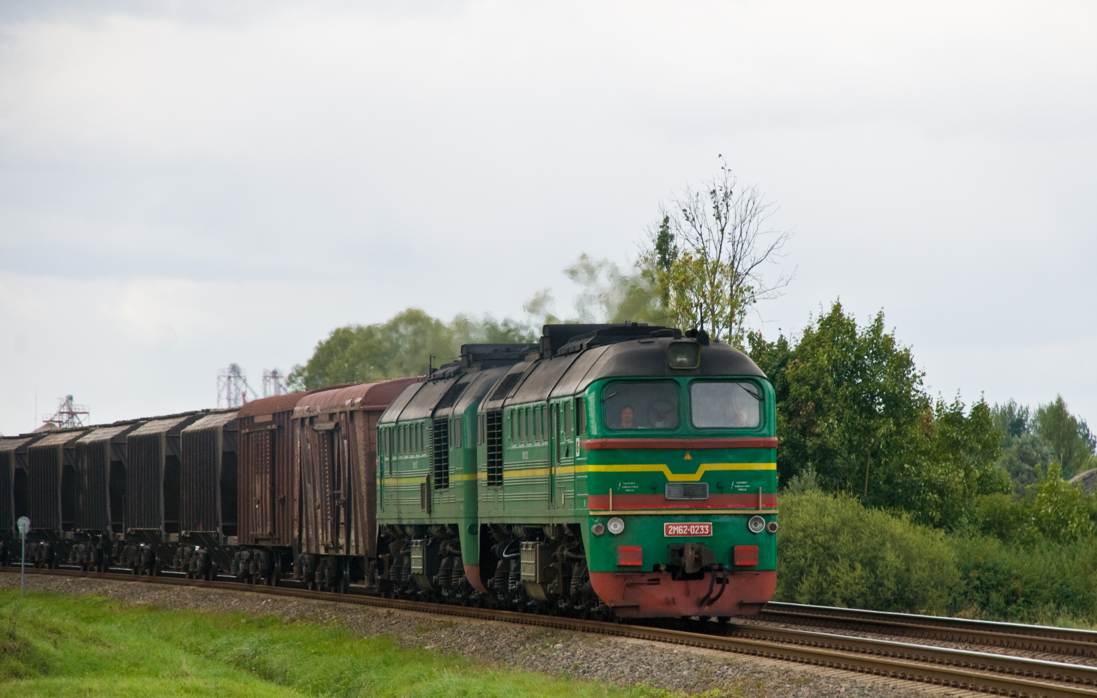 Train in Pilviškiai, Lithuania